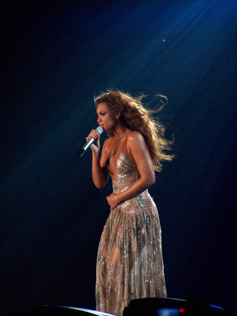 Beyoncé on a concert in Barcelona.